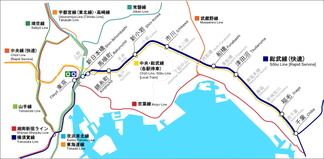 Map of JR Sobu Rapid Line